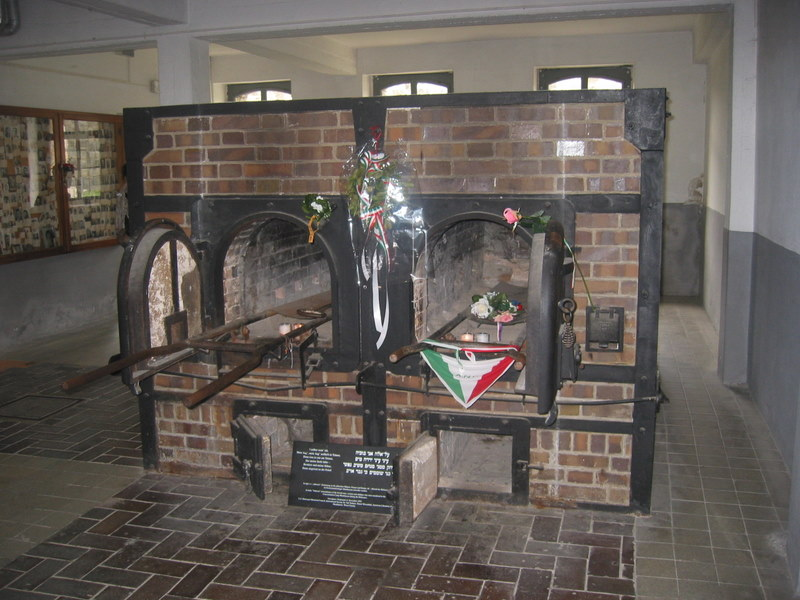 Cremation oven no. 3 at the concentration camp Mauthausen